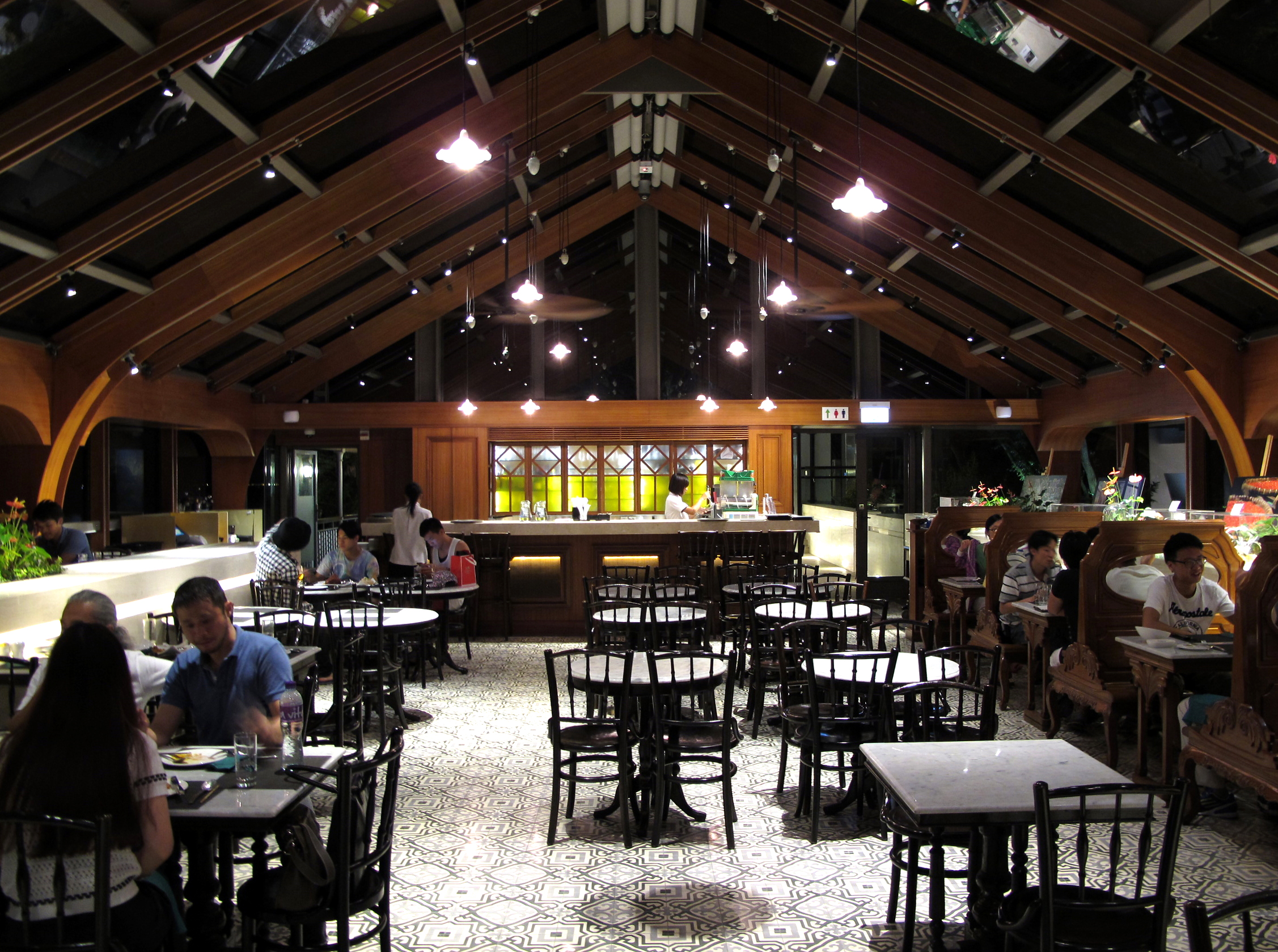 Tai O Heritage Hotel Tai O Look out